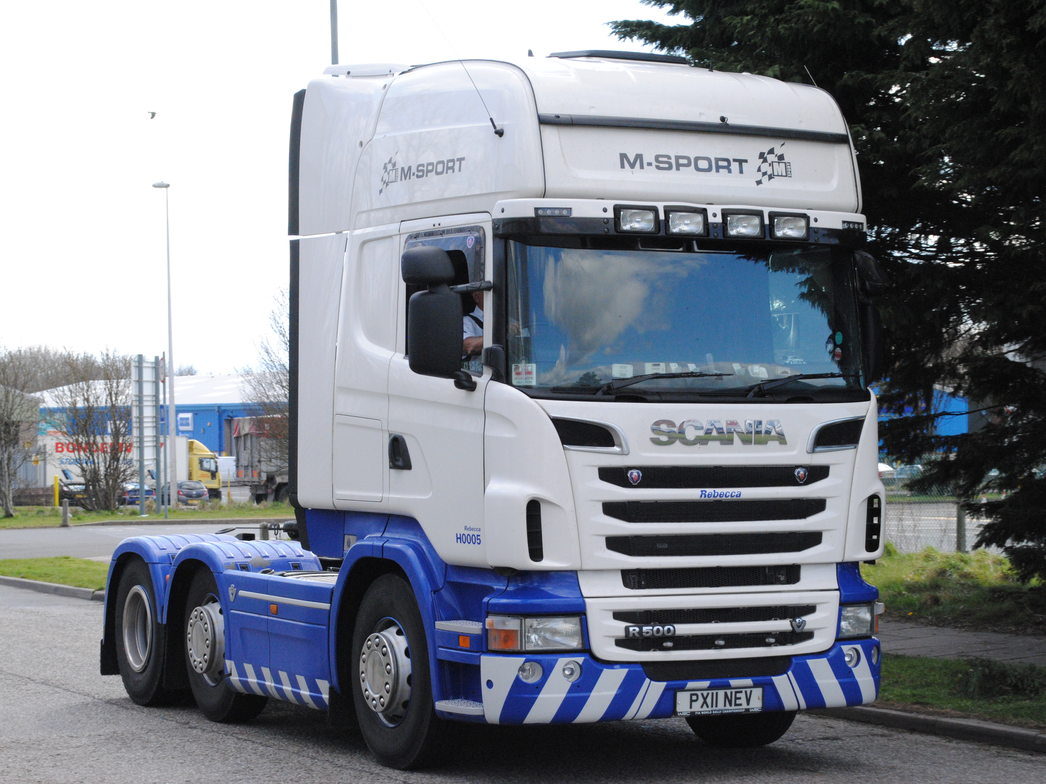 Scania R500 (H0005 Rebecca). seen here in seen here in Kingstown Industrial Estate, Carlisle